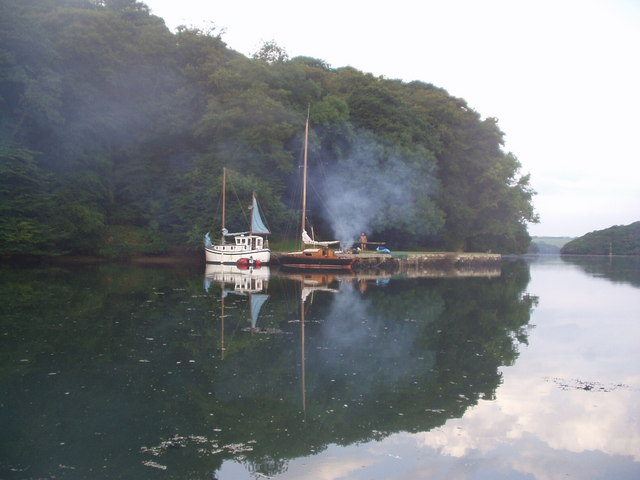 Riverside Woodland and Tremayne Quay Woodland coming down to waters edge with Tremayne Quay in foreground - built for visit by Queen Victoria but she decided against using it in the end.